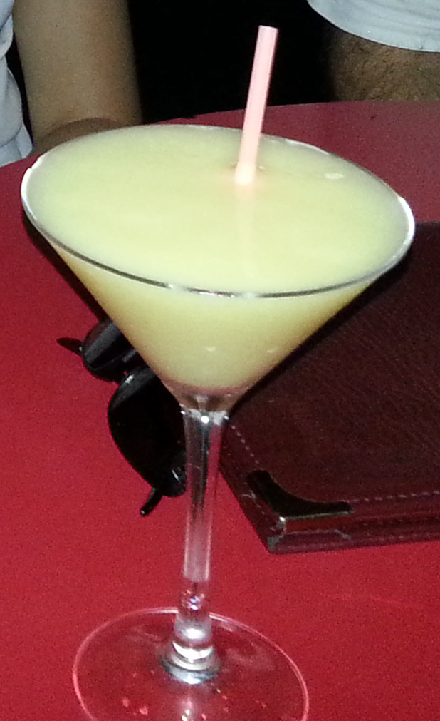 Real cubain Daïquiri cocktail